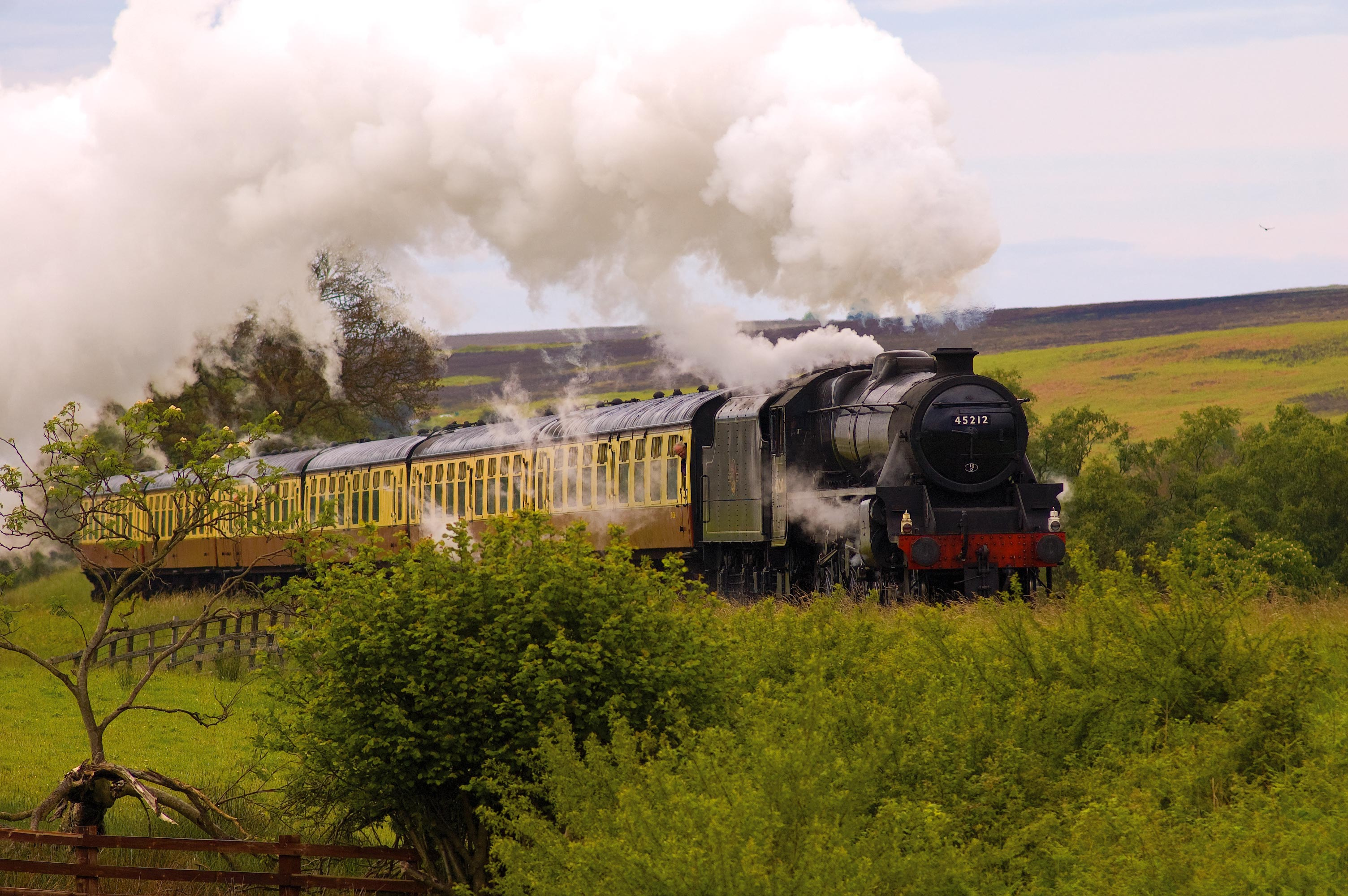 north yorks moors railway